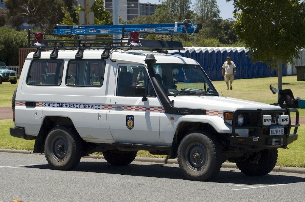 SES Toyota Landcruiser.